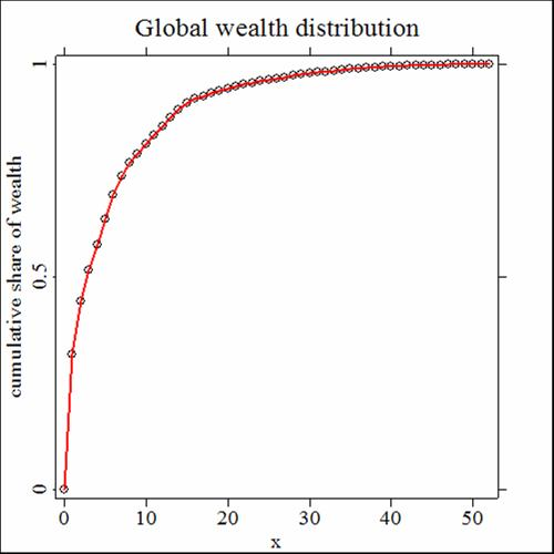 distribution of wealth ms